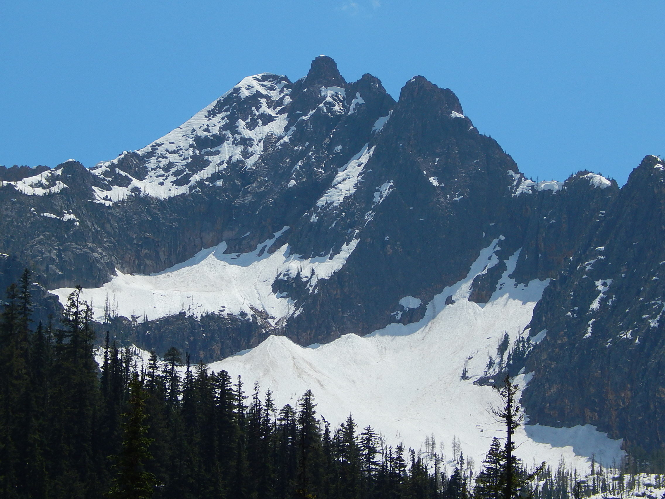 Hinkhouse Peak 7560" seen from the Cutthroat Lake Trailhead zoomed in